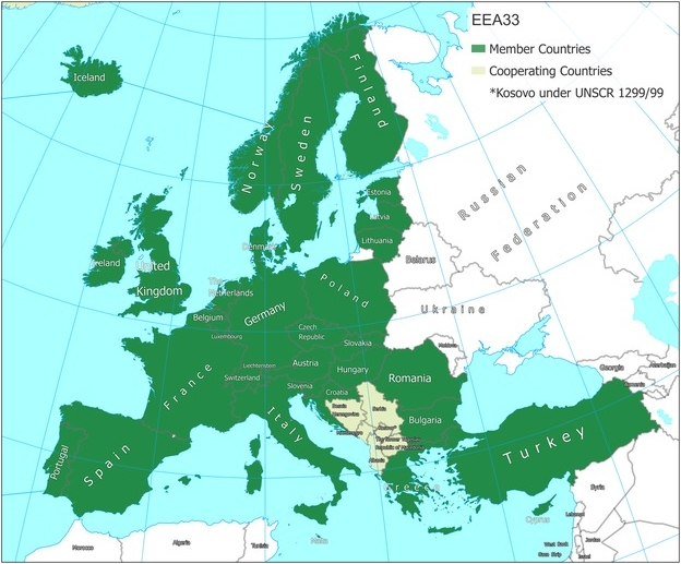 The European Environment Agency has 32 member countries and seven collaborating countries. The Agency is based in Copenhagen.